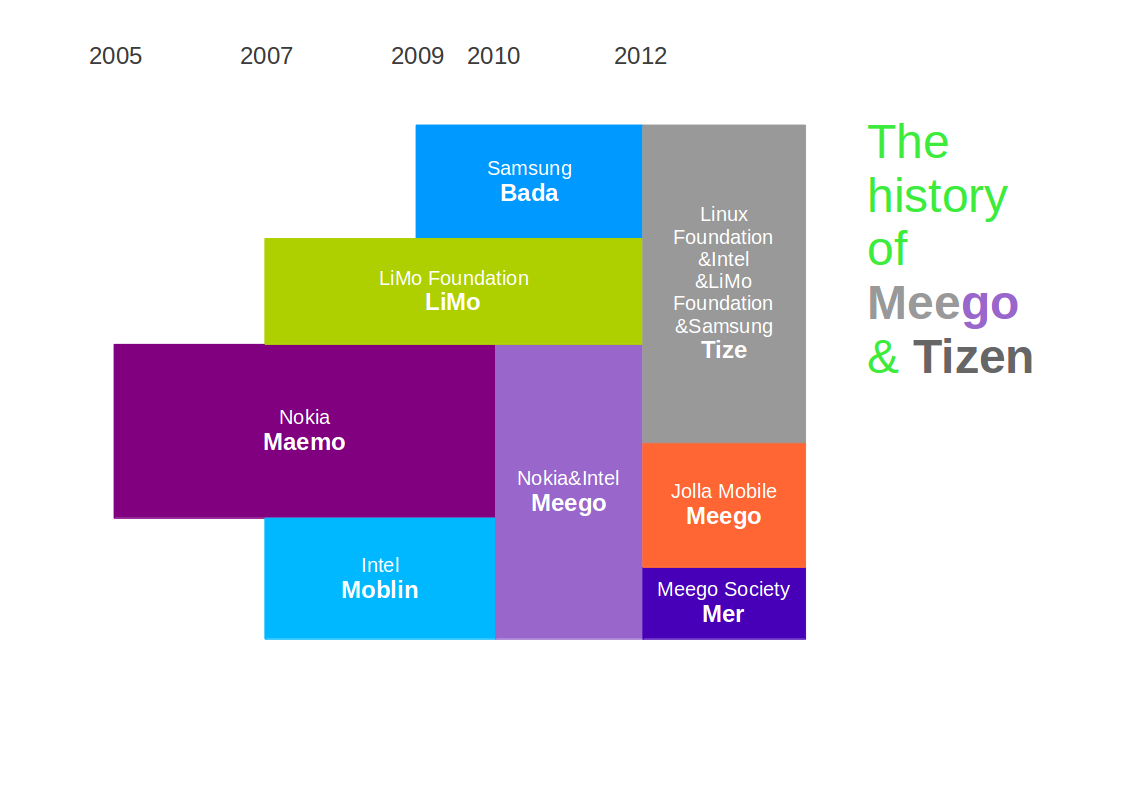 The history map of Meego, Tizen, and other linux-based projects.